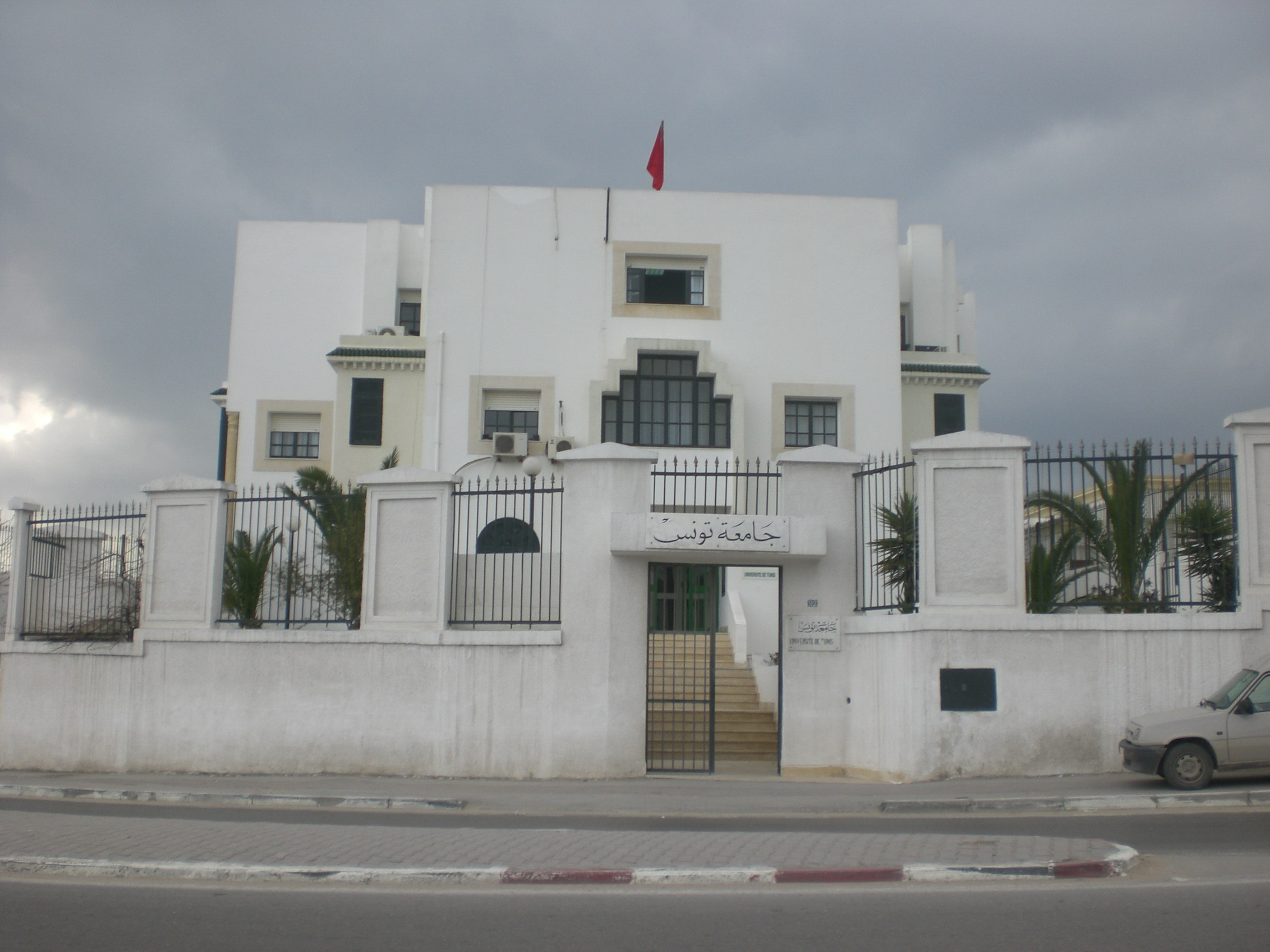 The university of Tunis